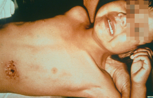 Ulceration of a bite from a flea infected with the yersinia pestis bacteria